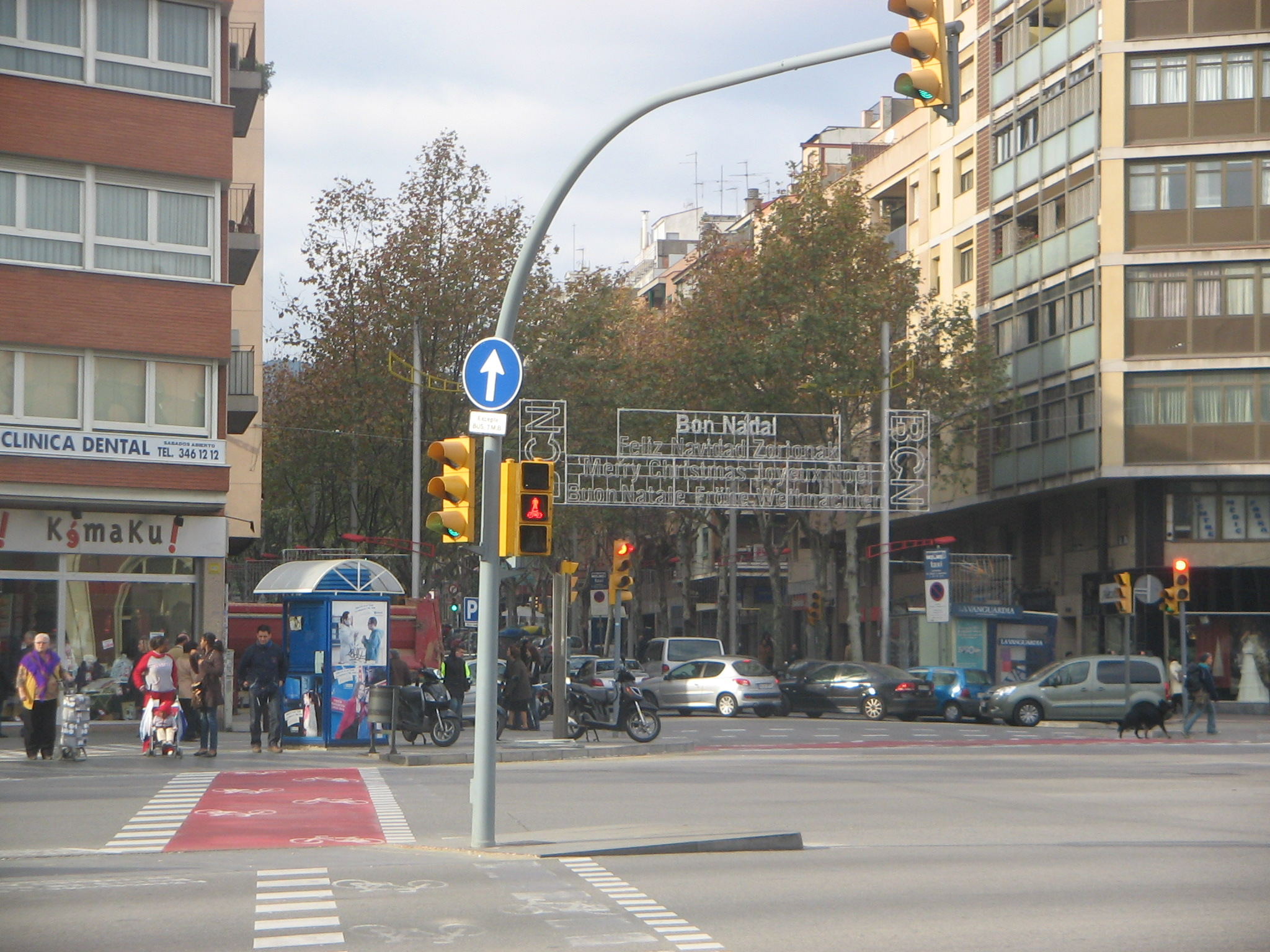 Fabra i Puig with Av. Meridiana. (Barcelona)